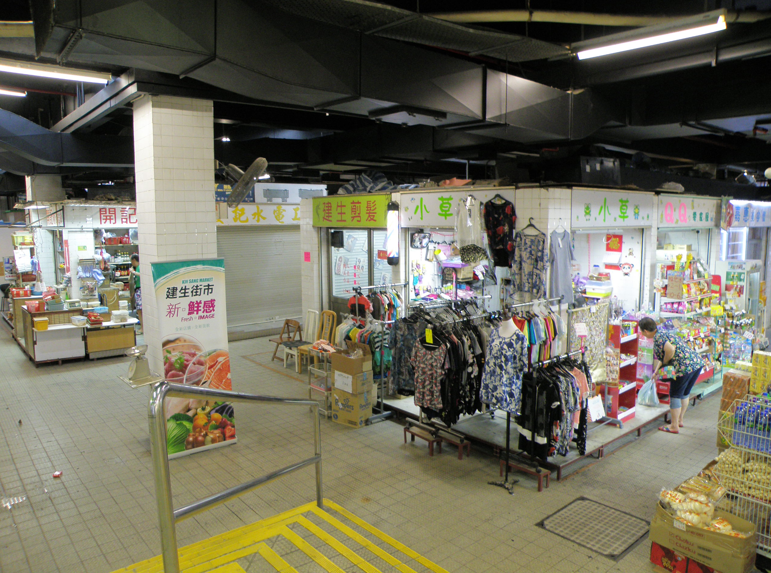 Kin Sang Market in Tuen Mun, Hong Kong.